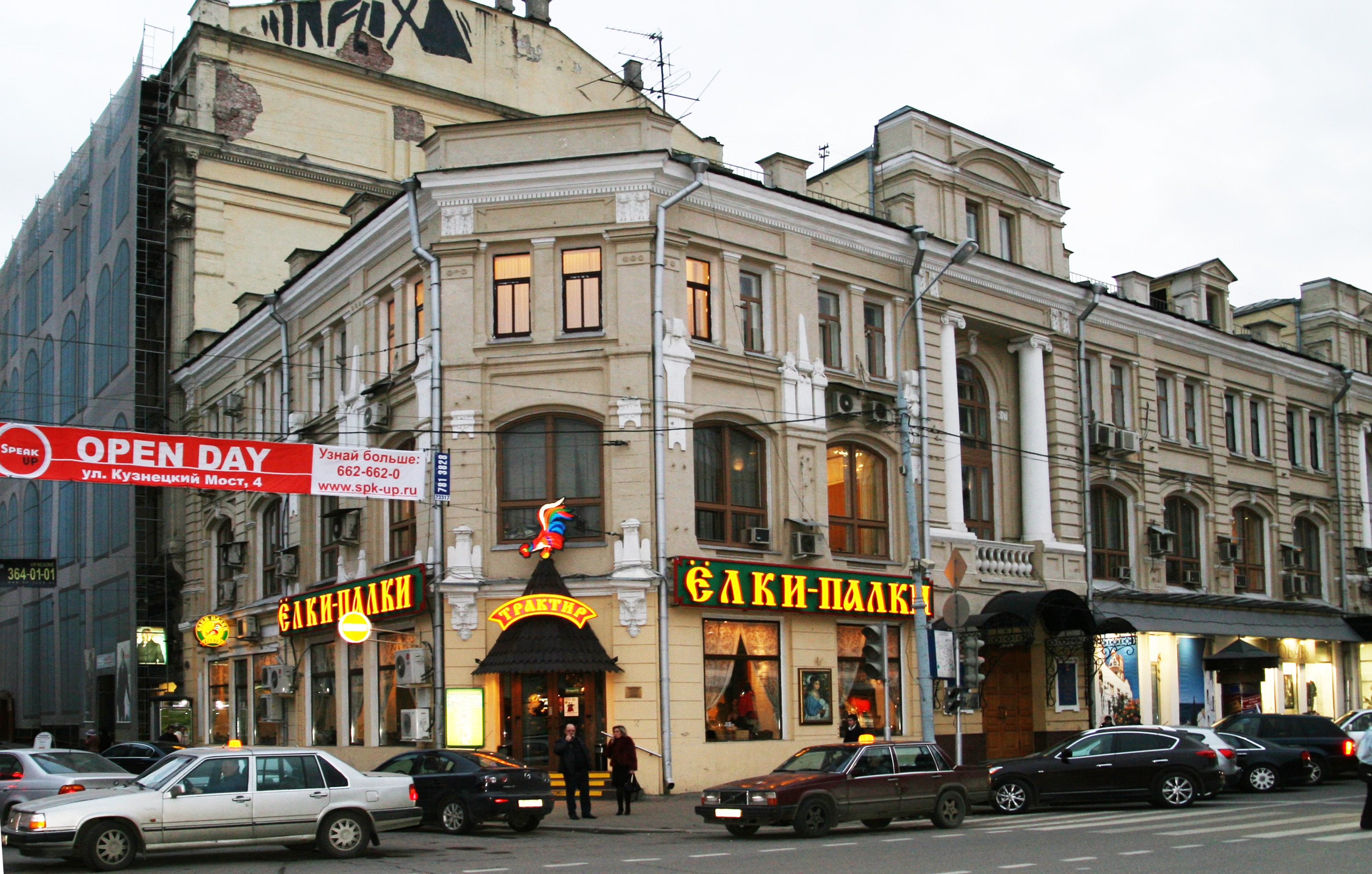 Moscow, Kuznetsky Most Street 10-8, former OBMOKhU atelier, former Fabergé Store